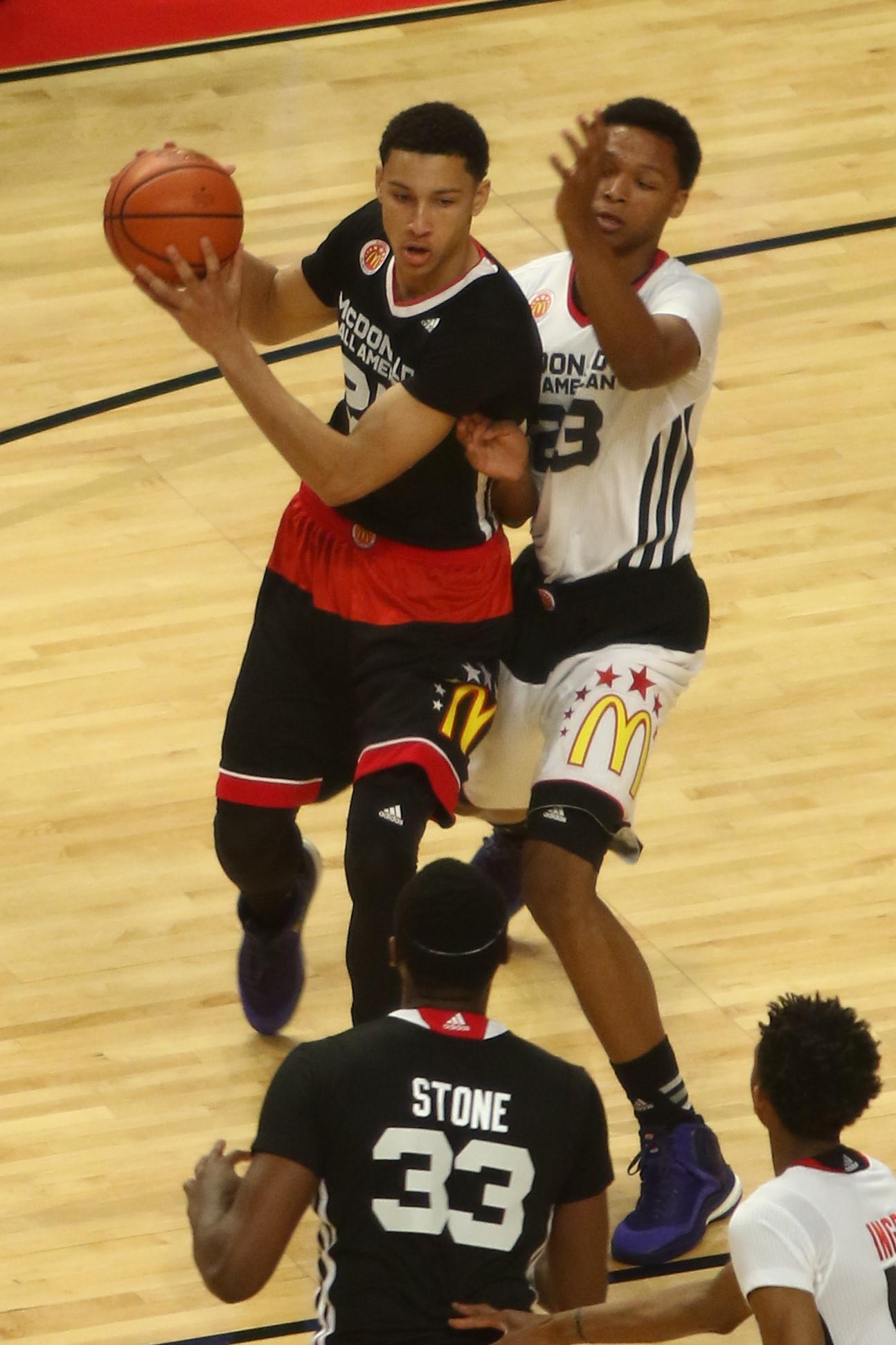 Ben Simmons posts Ivan Rabb in the w:2015 McDonald's All-American Boys Game